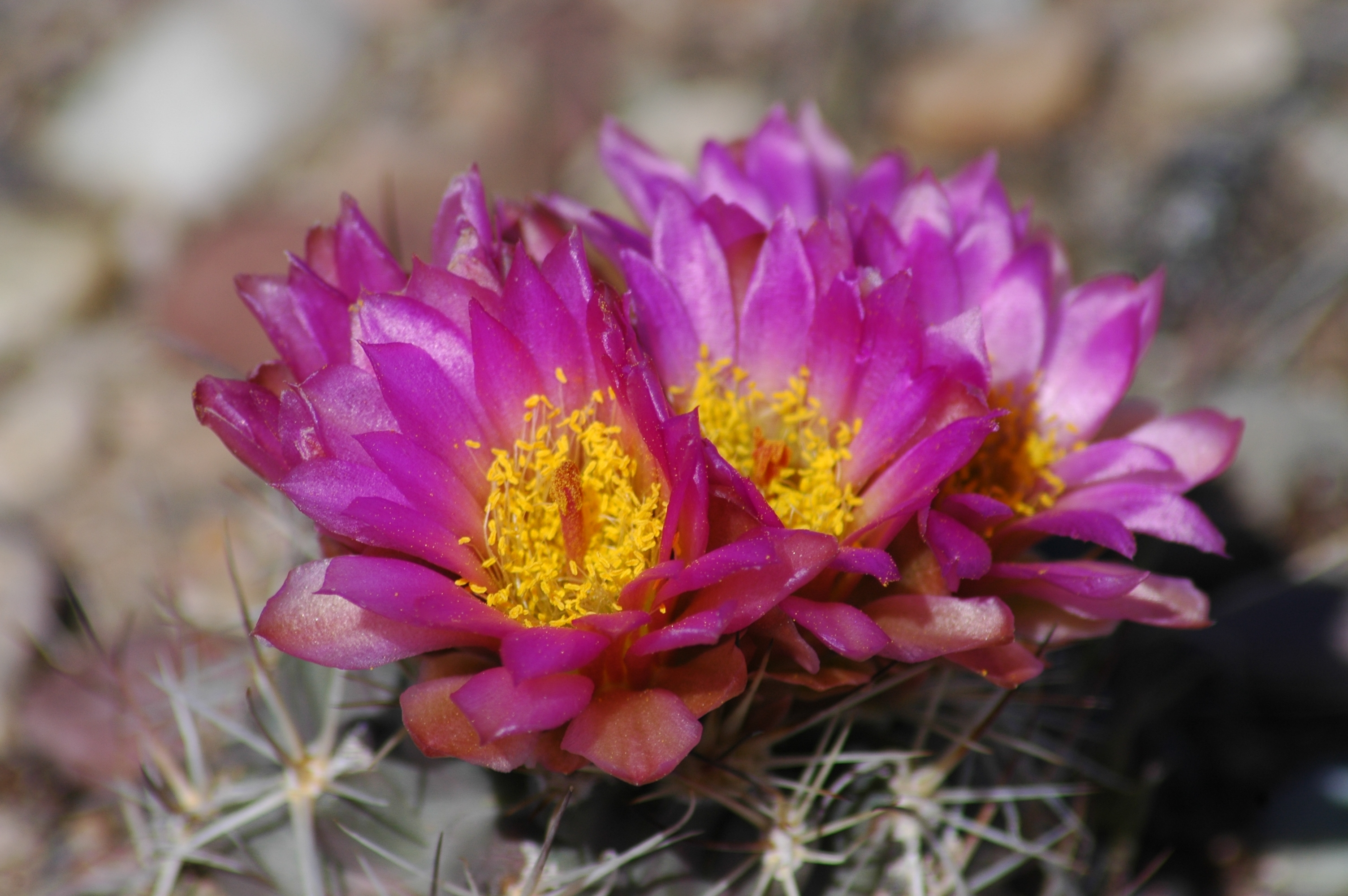 Uinta Basin hookless cactus (Sclerocactus wetlandicus) in bloom on Ouray National Wildlife Refuge in Utah. Credit: Bekee Hotz / USFWS